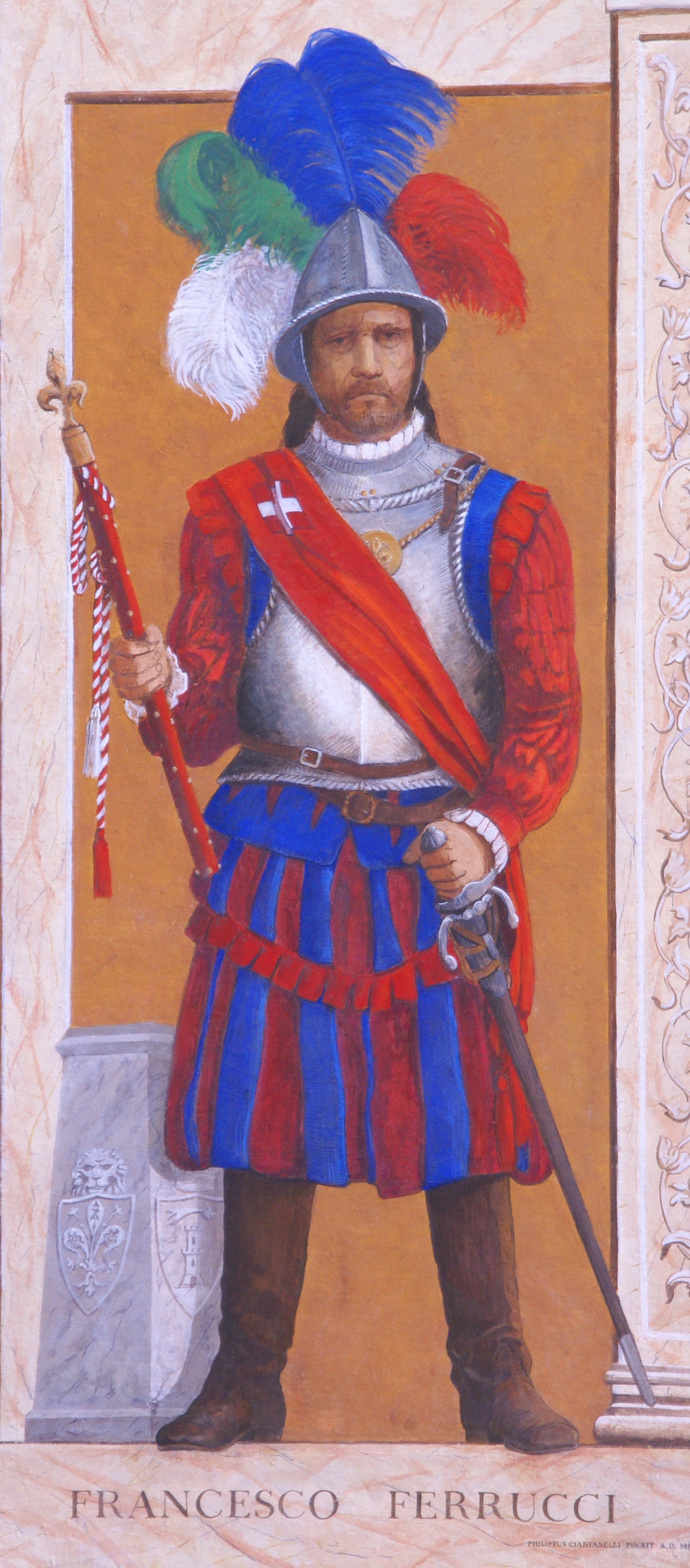 Francesco Ferrucci in a work of the italian painter Filippo Cianfanelli